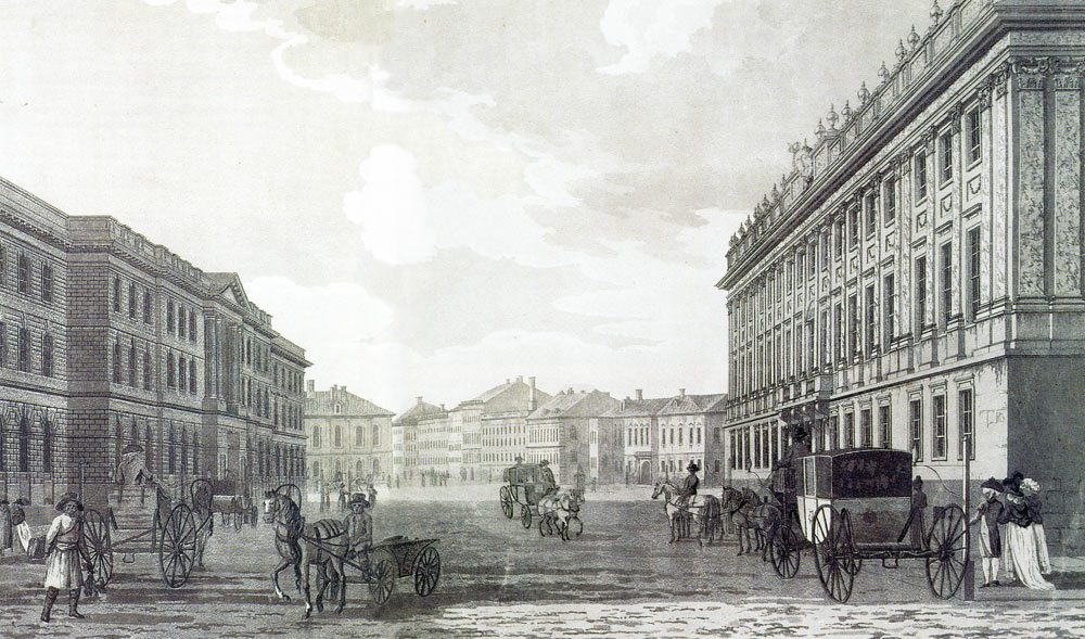 View Million streets. Engraving 1790